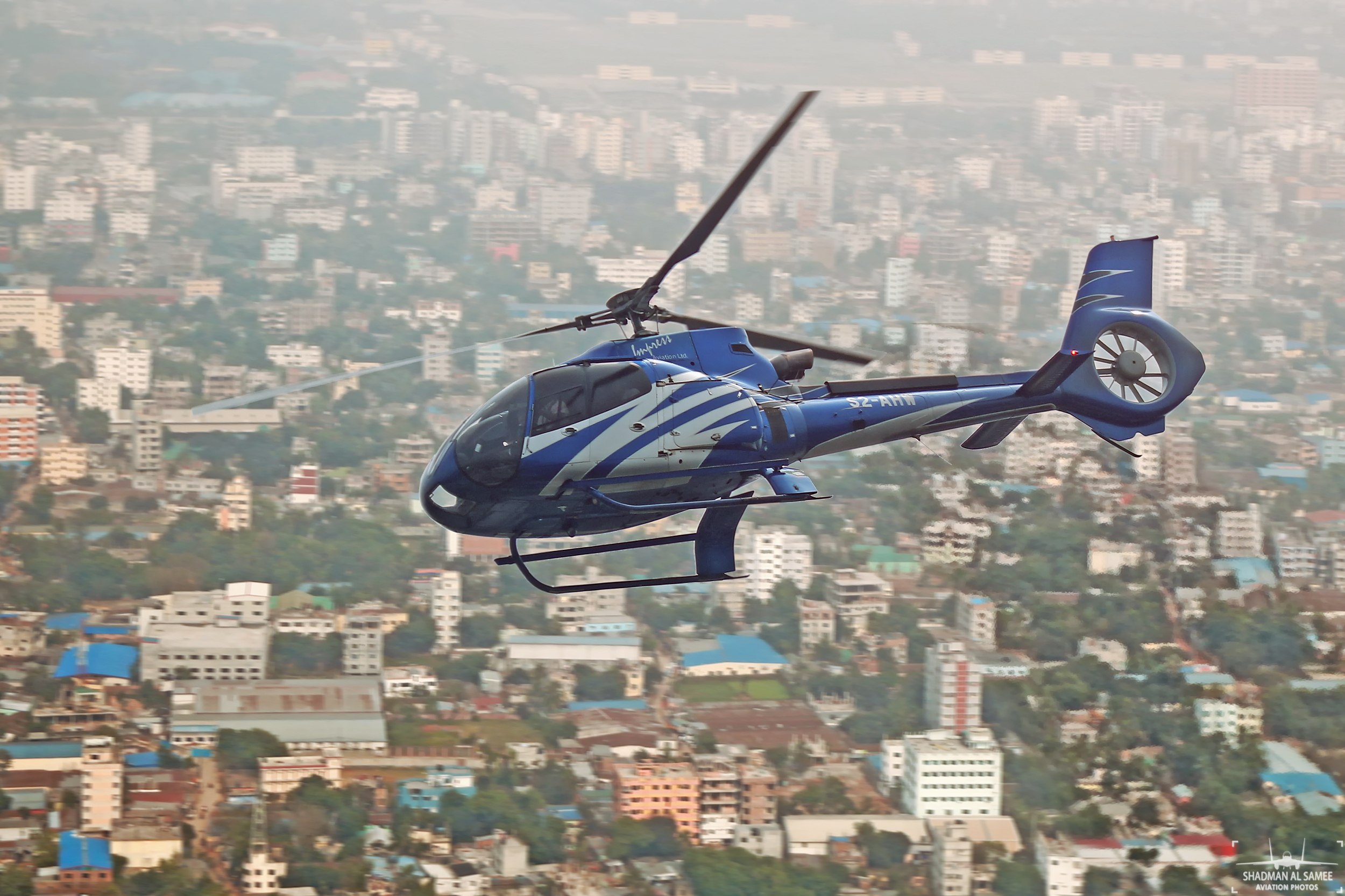 Two-shot-composite: Whiskey over Uttara!